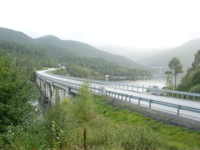 The bridge Smalsundbrua in Norway